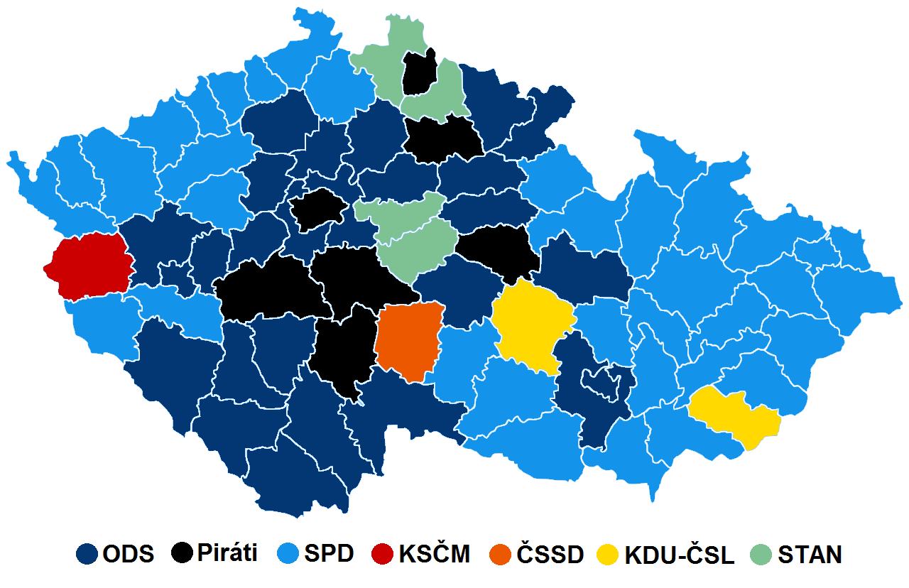 Second places (after ANO) in every region in 2017 Czech legislative election.